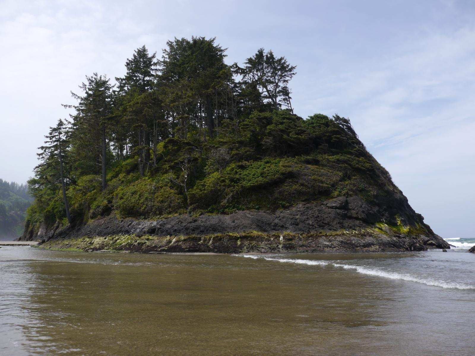 Proposal Rock, an island off the northern Oregon Coast in Tillamook County, near the census-designated place Neskowin